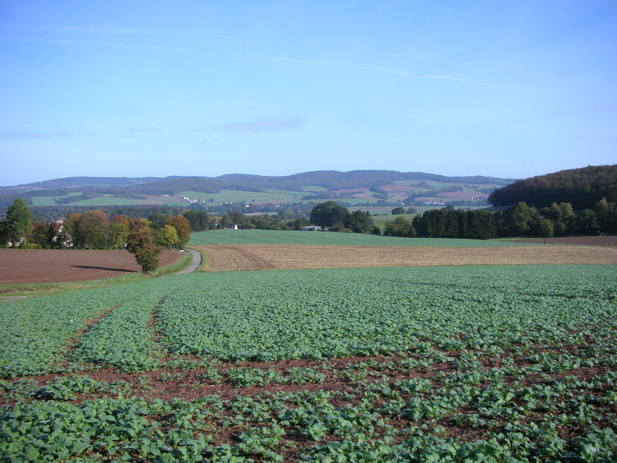 The upper Begavalley in the german district Lippe near by the hanseatic town Lemgo